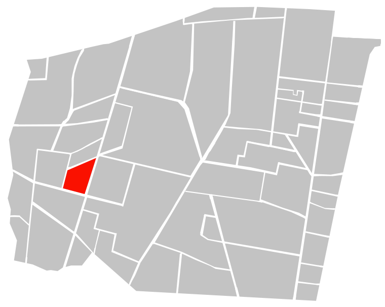 Map of Delegación Benito Juárez in Mexico City, with Colonia Extremadura Insurgentes highlighted in red